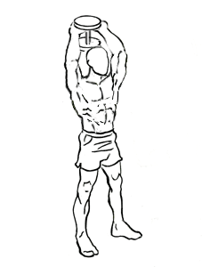 an exercise of triceps